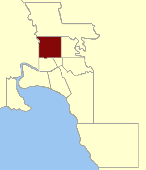 Electoral district of North Melbourne 1859, Victorian Legislative Assembly